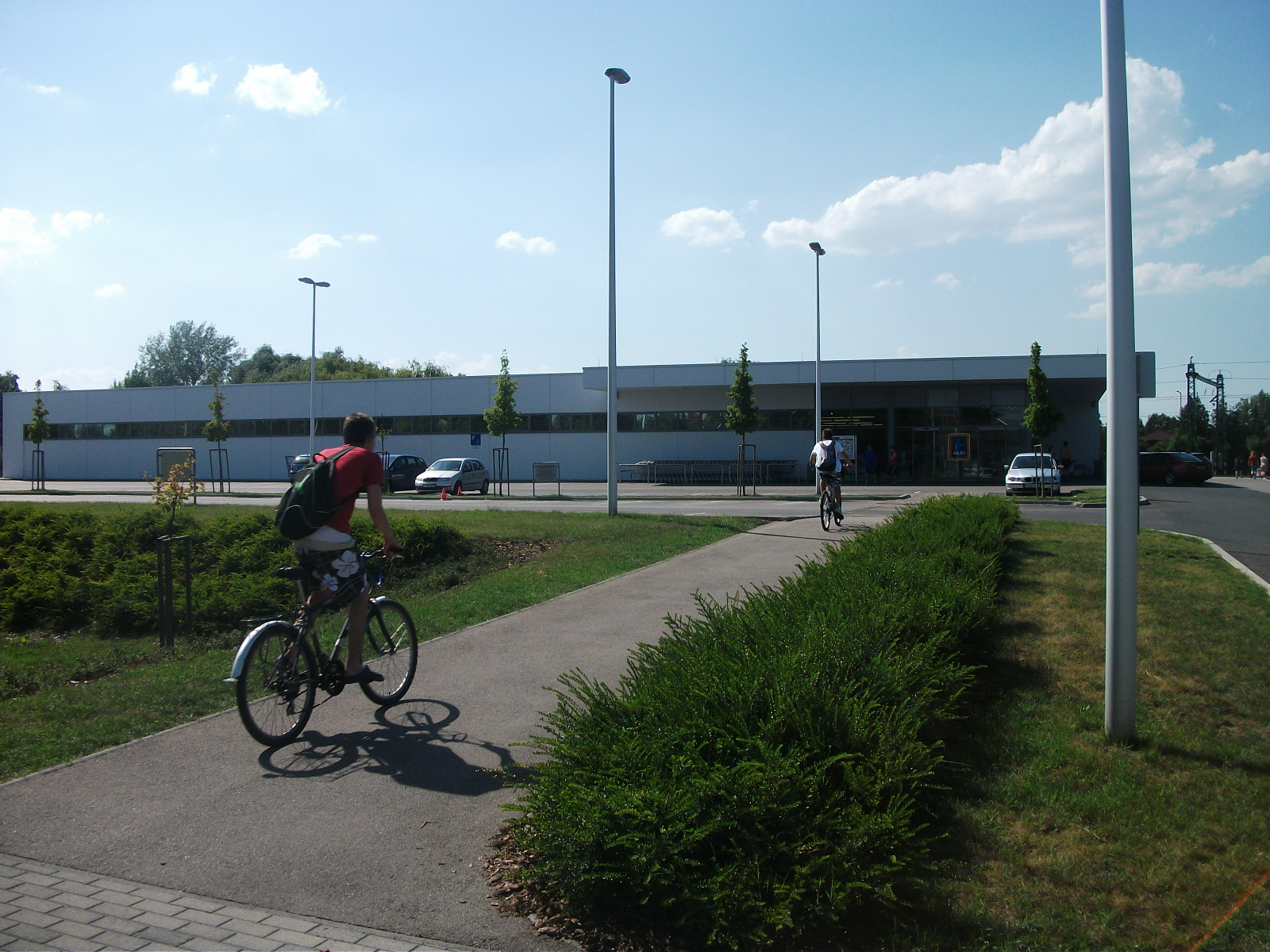 The ALDI supermarket in Gárdony, Hungary.